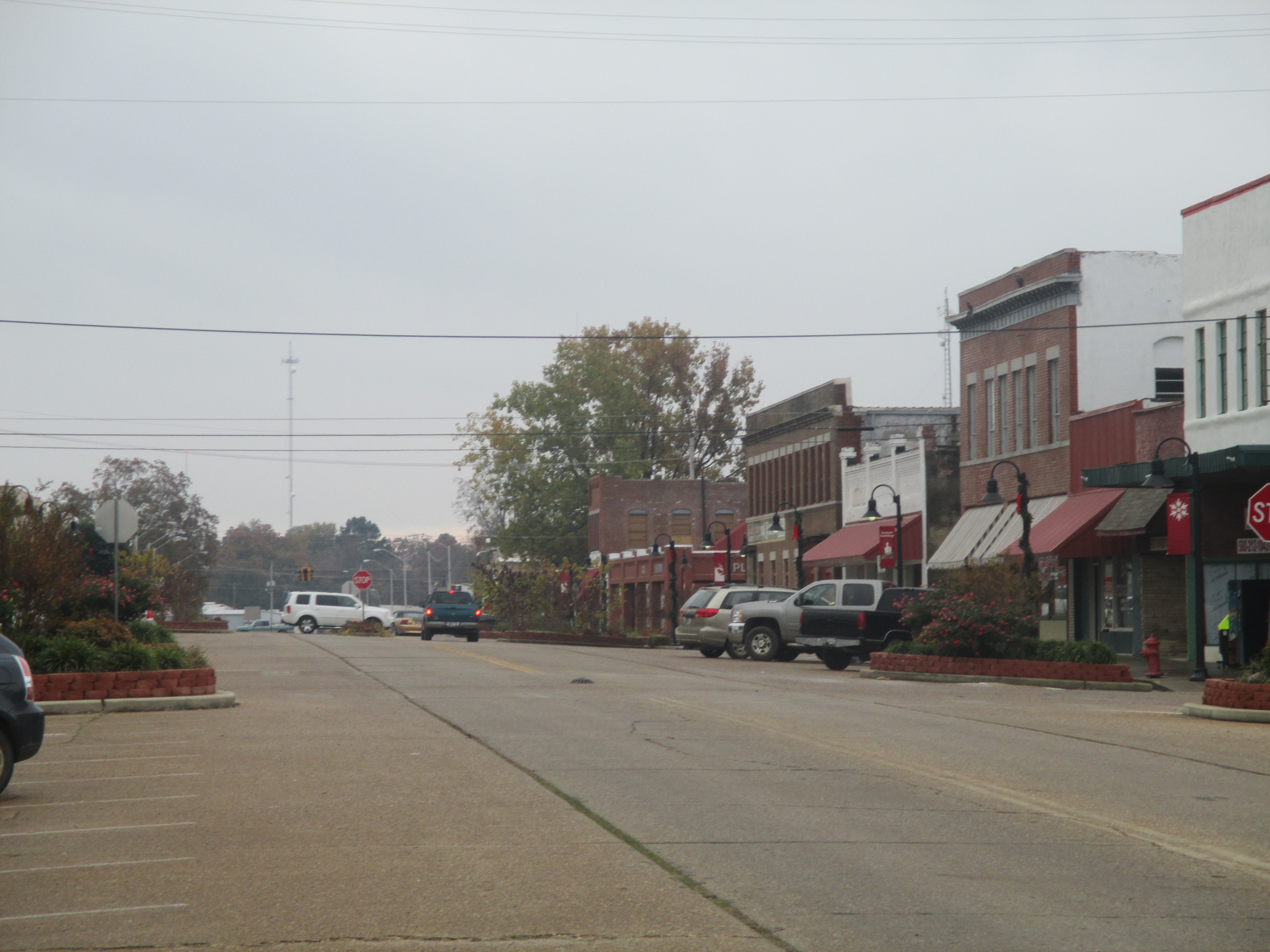 I took photo with Canon camera of downtown Idabel, OK.